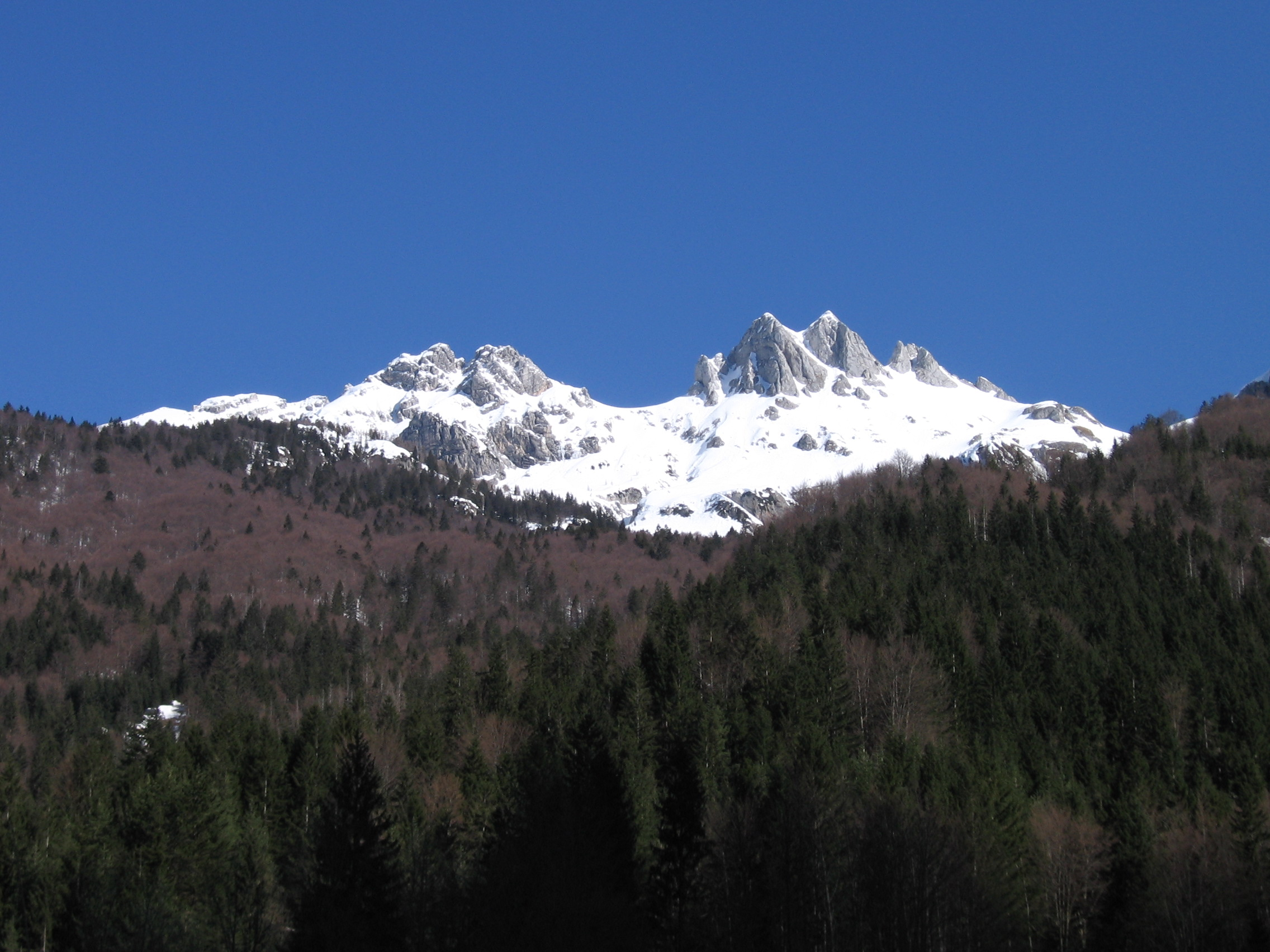 Crest of peaks above Koritnica valley: Skala (on the left) and Male Špice (on the right); on the border between Italy and Slovenia.